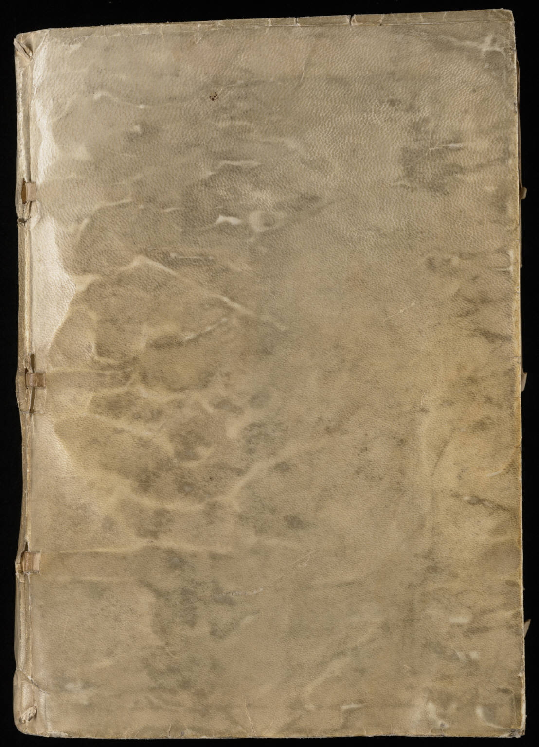 Front cover of the mysterious Voynich manuscript, which is undeciphered to this day.